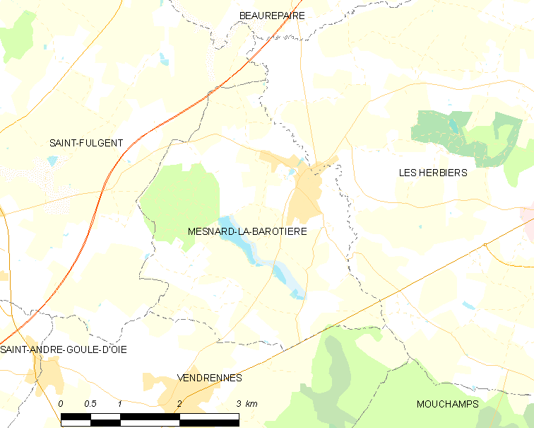 Map of French municipality Mesnard-la-Barotière